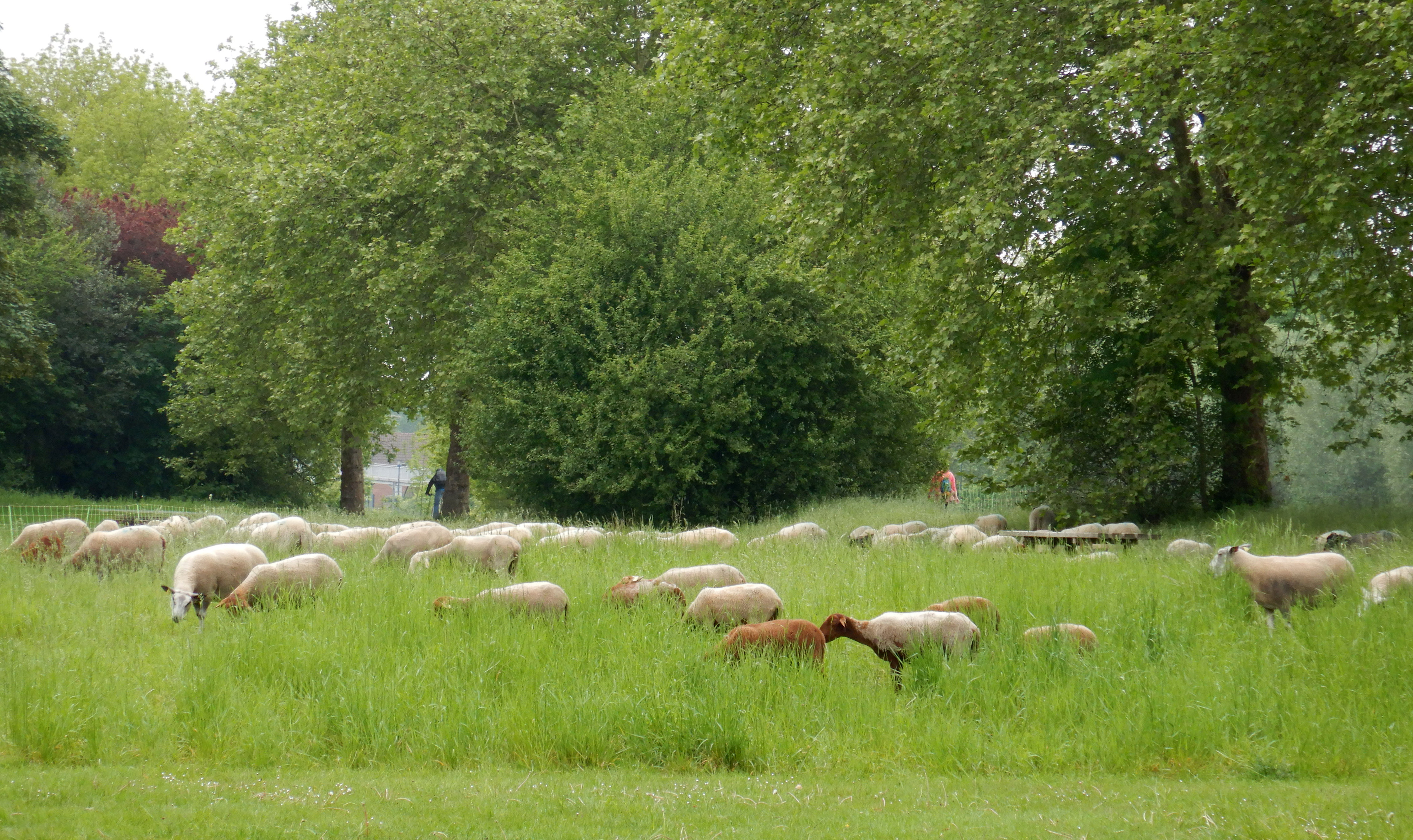 Management of urban green spaces by ecopaturing ; here by 140 sheep and 10 goats, in the wood of the citadel, around the citadel of Vauban in Lille in spring 2019, (under or near the Royal Gate of the Bouflers Barracks). The animals belong to the company Ecozoone specialized in fixed or itinerant grazing (with in this case an "urban shepherd" helped by his dog).These herbivores maintain vegetation in a more environmentally friendly way than when ilt si mowed or machine-cut (eg goats stand up and eat the low leaves of bushes and trees, and sheep graze by better accompanying the soil, enriched by their excrement) and during itineraries (a transhumance was organized through the town Lille on 19 May 2019) they play a role of "walking biological corridor", because when moving from one site to another other, they carry propagules of plants and other organisms such as mushroom spores, propagules of lichens, insects and other invertebrates, bacteria, etc. (The herbivores carry these propagules under their hooves, in their coat but also in their digestive tract. Some seeds will germinate or take root only after having passed into the digestive tract of an herbivore). These traveling animals reconnect semi-natural, relict, fragmented and distant environments, contributing to the ecological connectivity essential for maintaining biodiversity